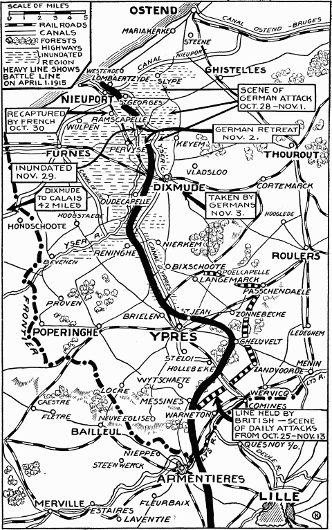 Map show actions of the First Battle of Ypres, Flanders, October - November 1914.